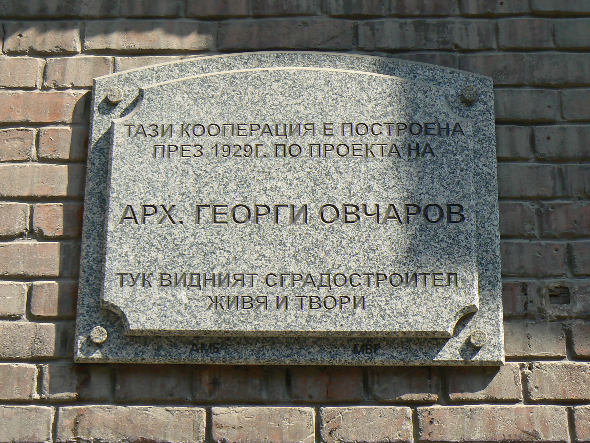 Sofia, 5A "Slavyanska" Street, memorial plaque on the home of architect Georgi Ovacherov